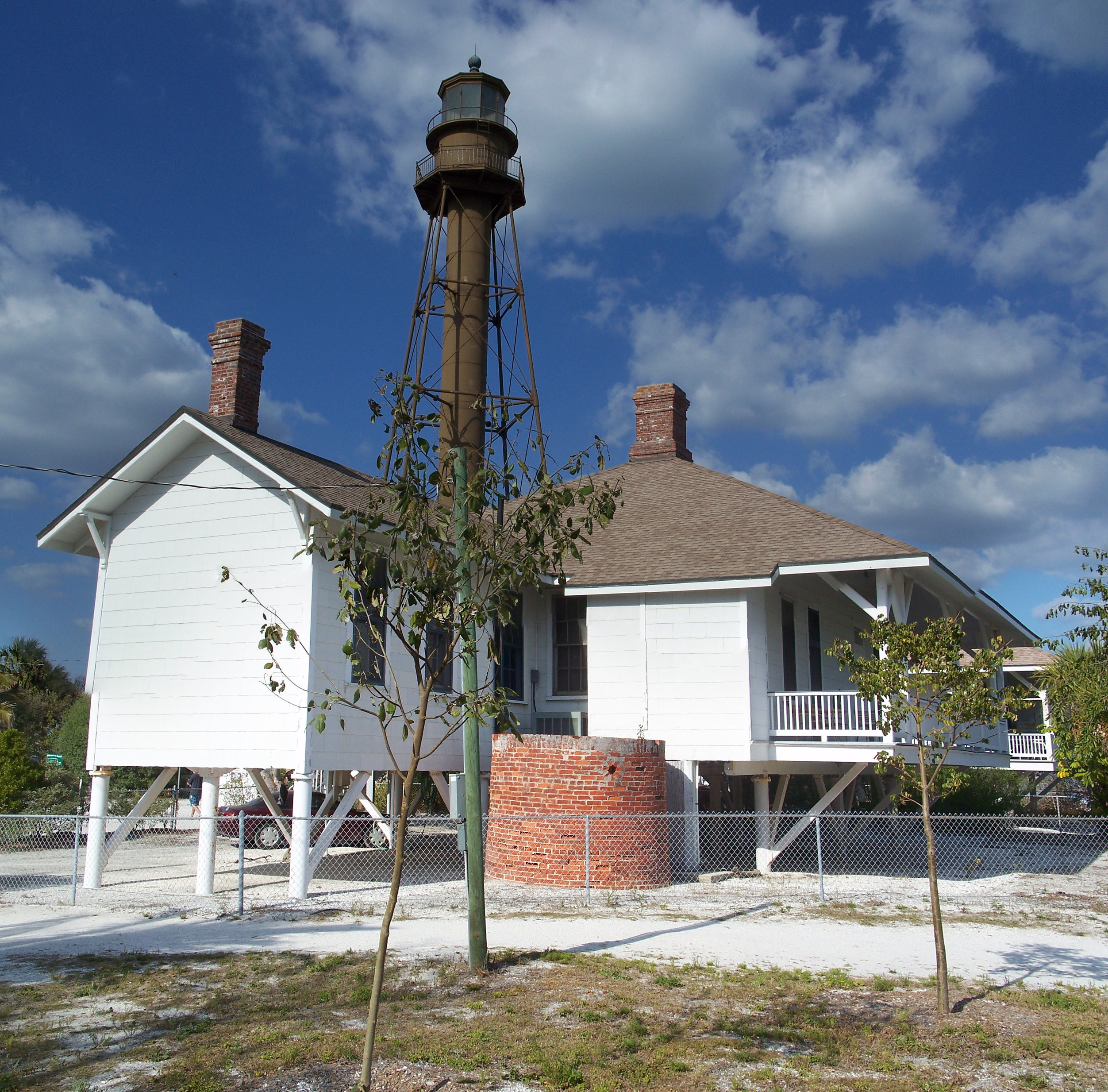 Sanibel, Florida: Sanibel Island Light